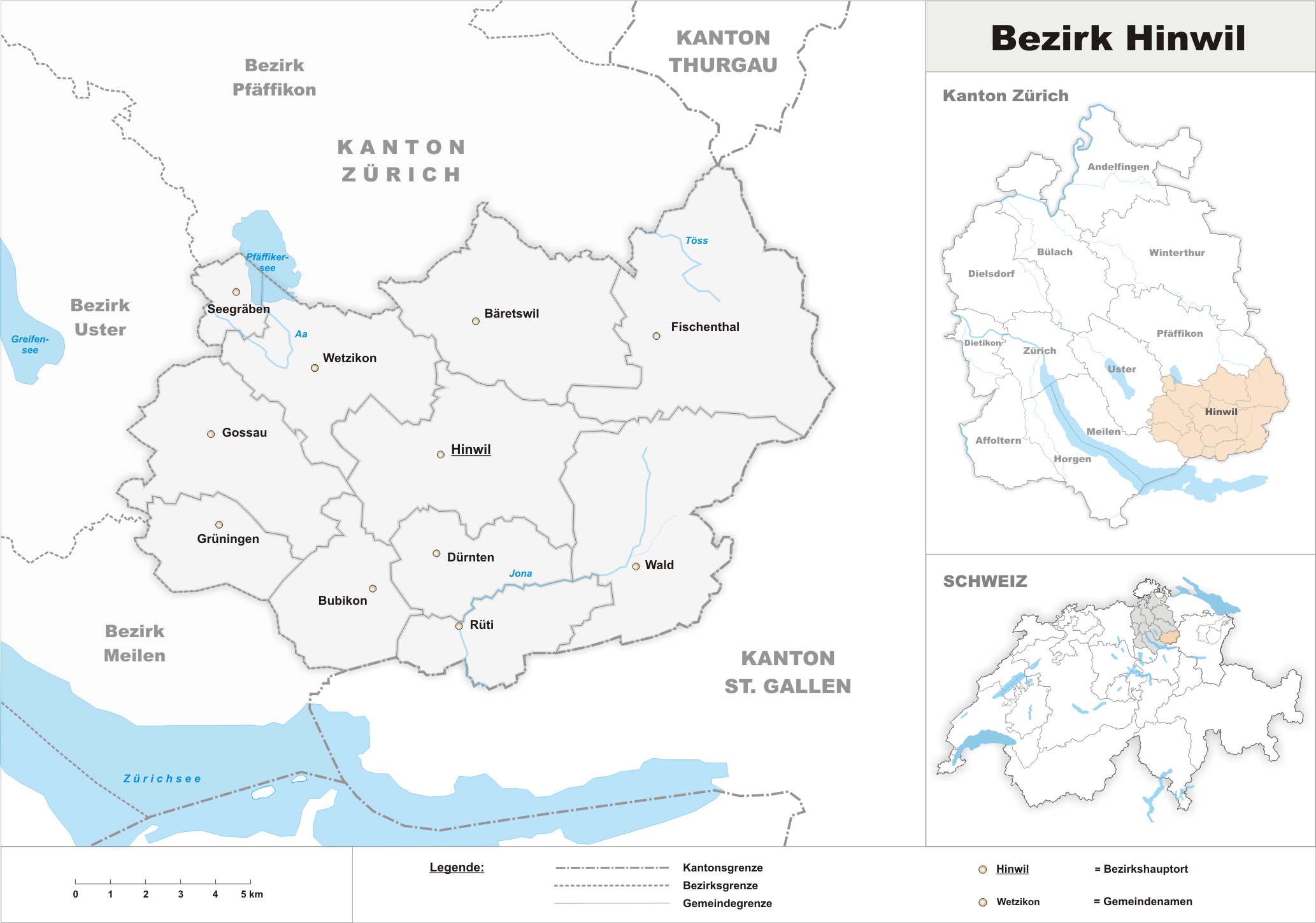 Municipalities in the district of Hinwil